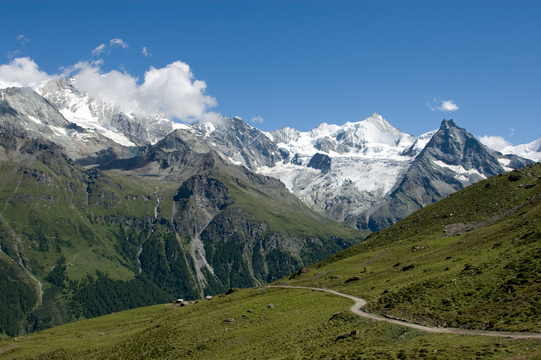 Mountain view around Zinal. Picture taken on descend 'Singline'